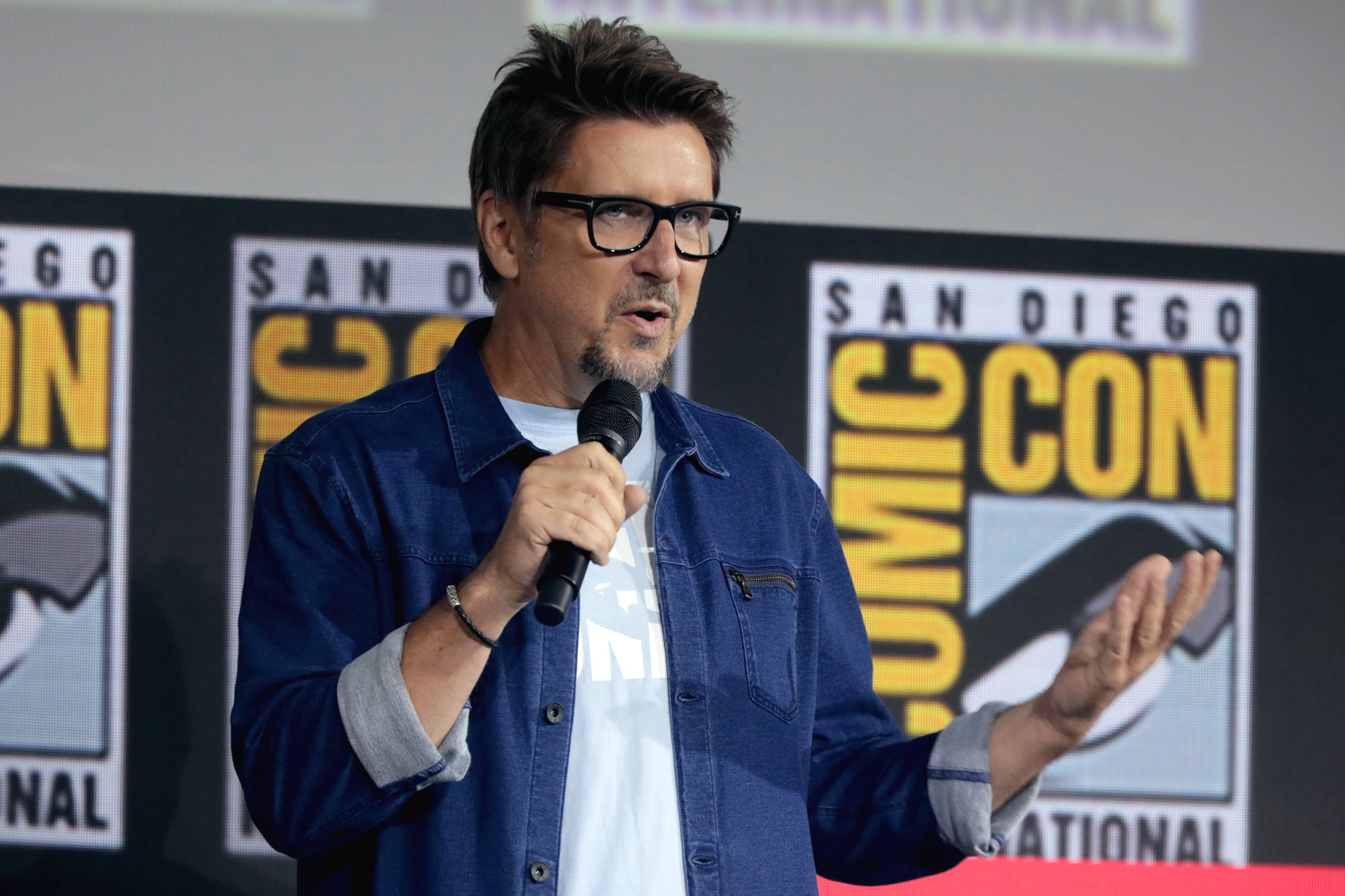 Scott Derrickson speaking at the 2019 San Diego Comic Con International, for "Doctor Strange in the Multiverse of Madness", at the San Diego Convention Center in San Diego, California.